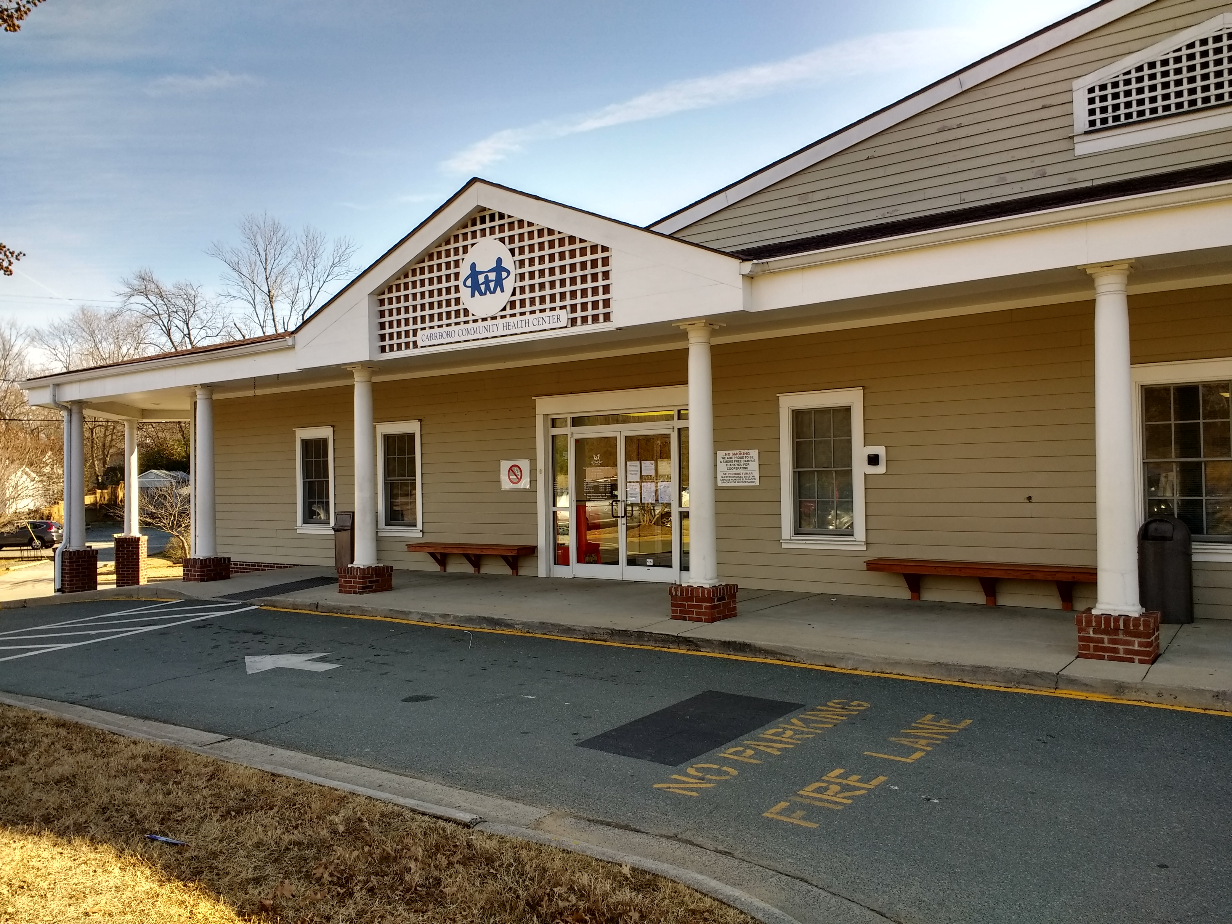 The Carrboro Community Health Center in Carrboro, North Carolina.